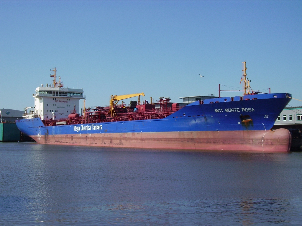 The chemical tanker "MCT Monte Rosa" of the Swiss company MCT